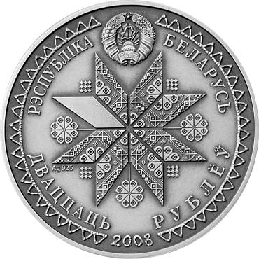 "Dziady", Silver commemorative coins, denomination: 20 rubles